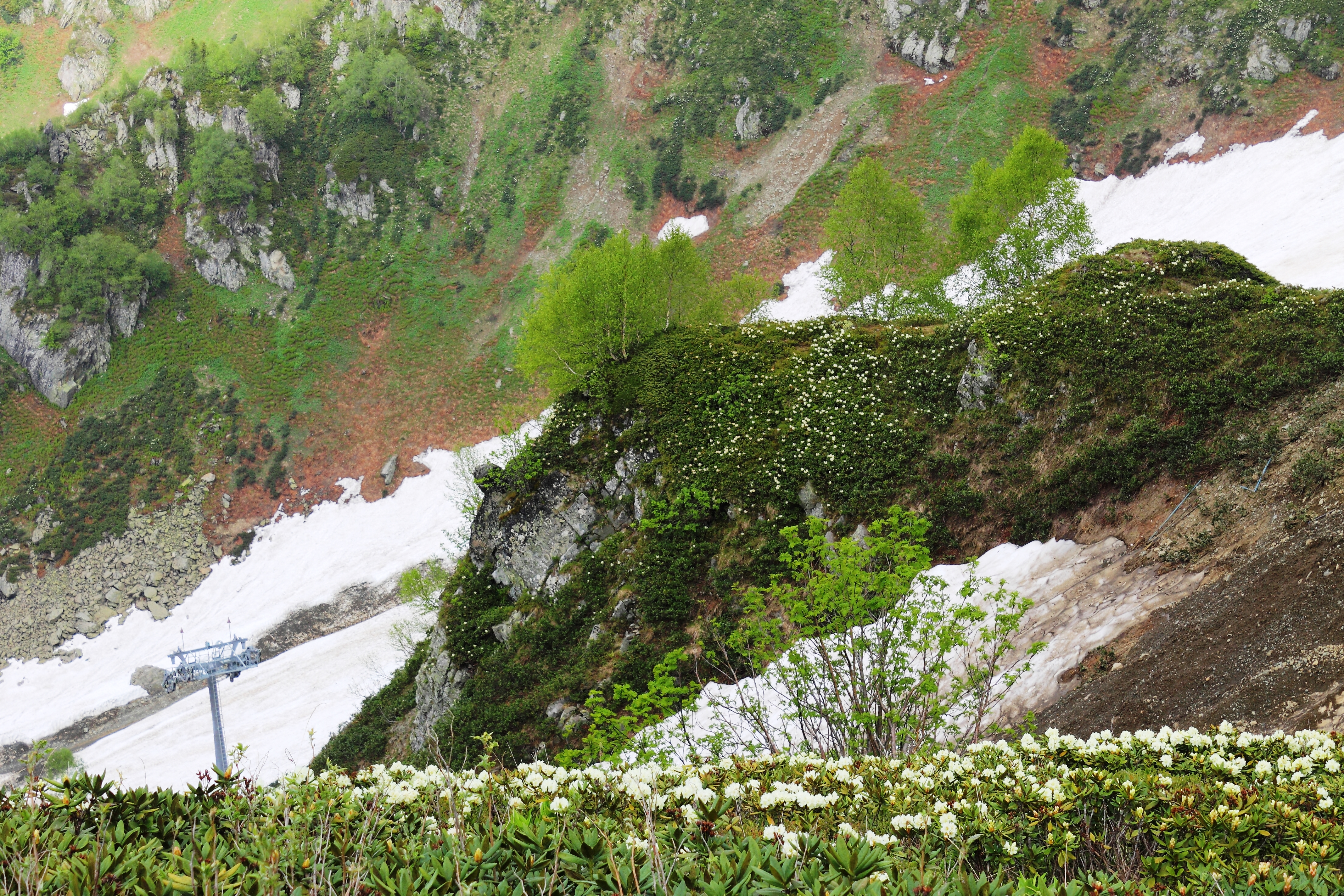 Spring in the Mountains. The picture taken at the Rosa Khutor alpine resort. Caucasus mountain near Sochi, Russian Federation.